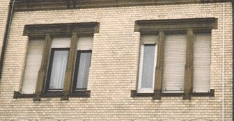 Heilbronn